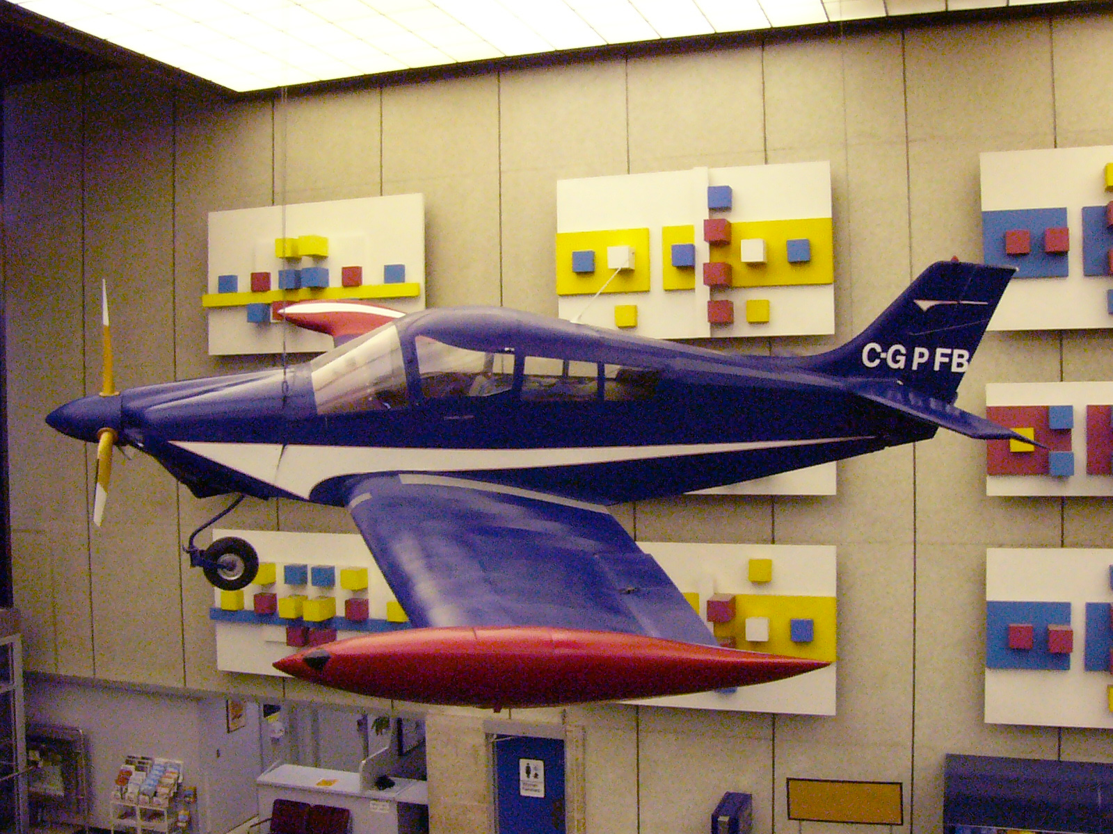 Cavalier SA102.5 on display hanging in the Winnipeg International Airport main terminal building.